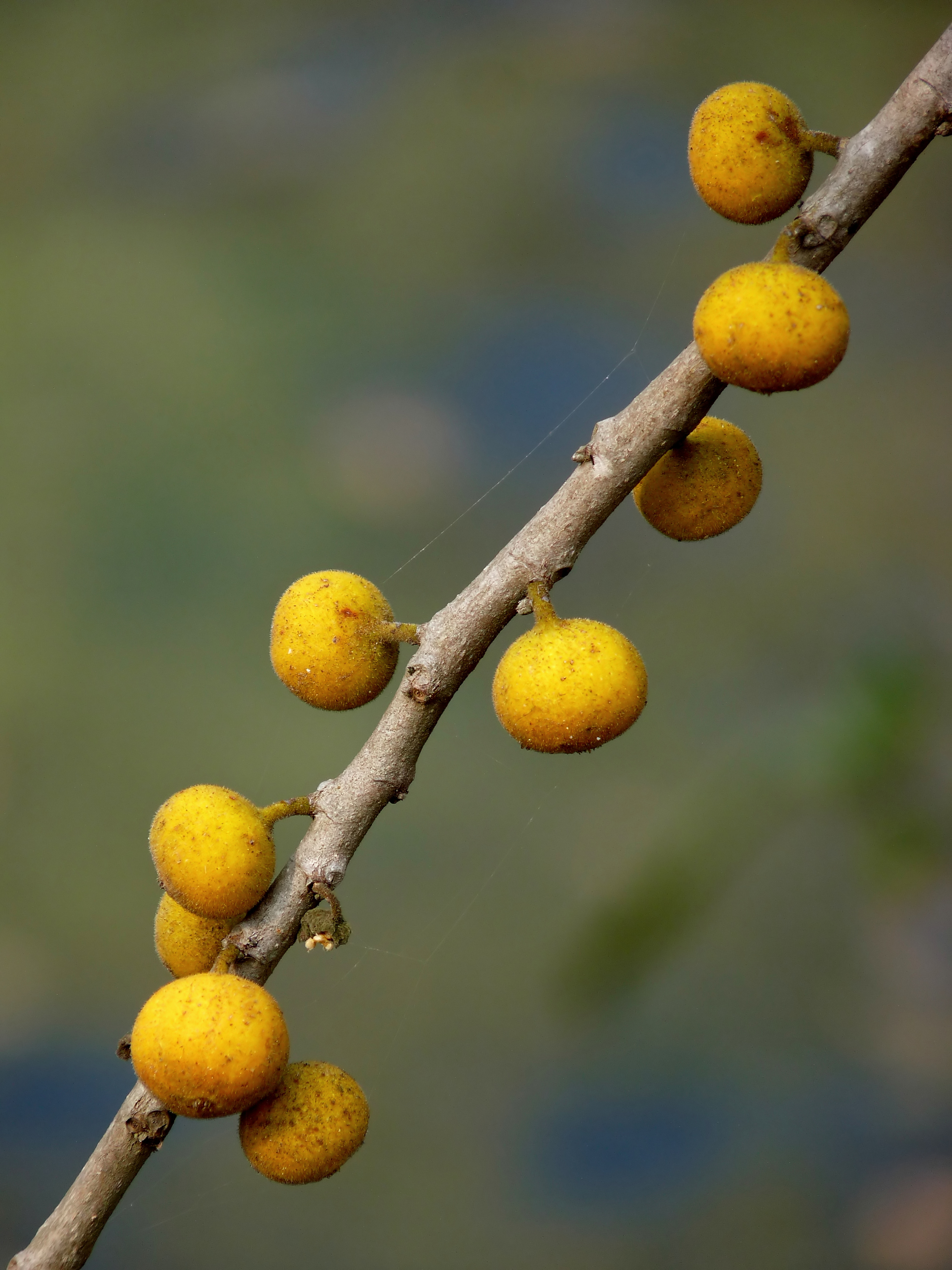 Ficus exasperata is a tree--native to sub-Saharan Africa, the Arabian Peninsula and India--that is also known as Brahma's banyan, sandpaper fig and rough banyan. The highly textured leaf surface is credited for the "sandpaper" and "rough" descriptors. Exasperata leaves have been used in traditional medicine throughout the tree's native habitat. A liquid is prepared by soaking the leaves in water, or boiling and straining them. Taken at Kudayathoor, Kerala, India